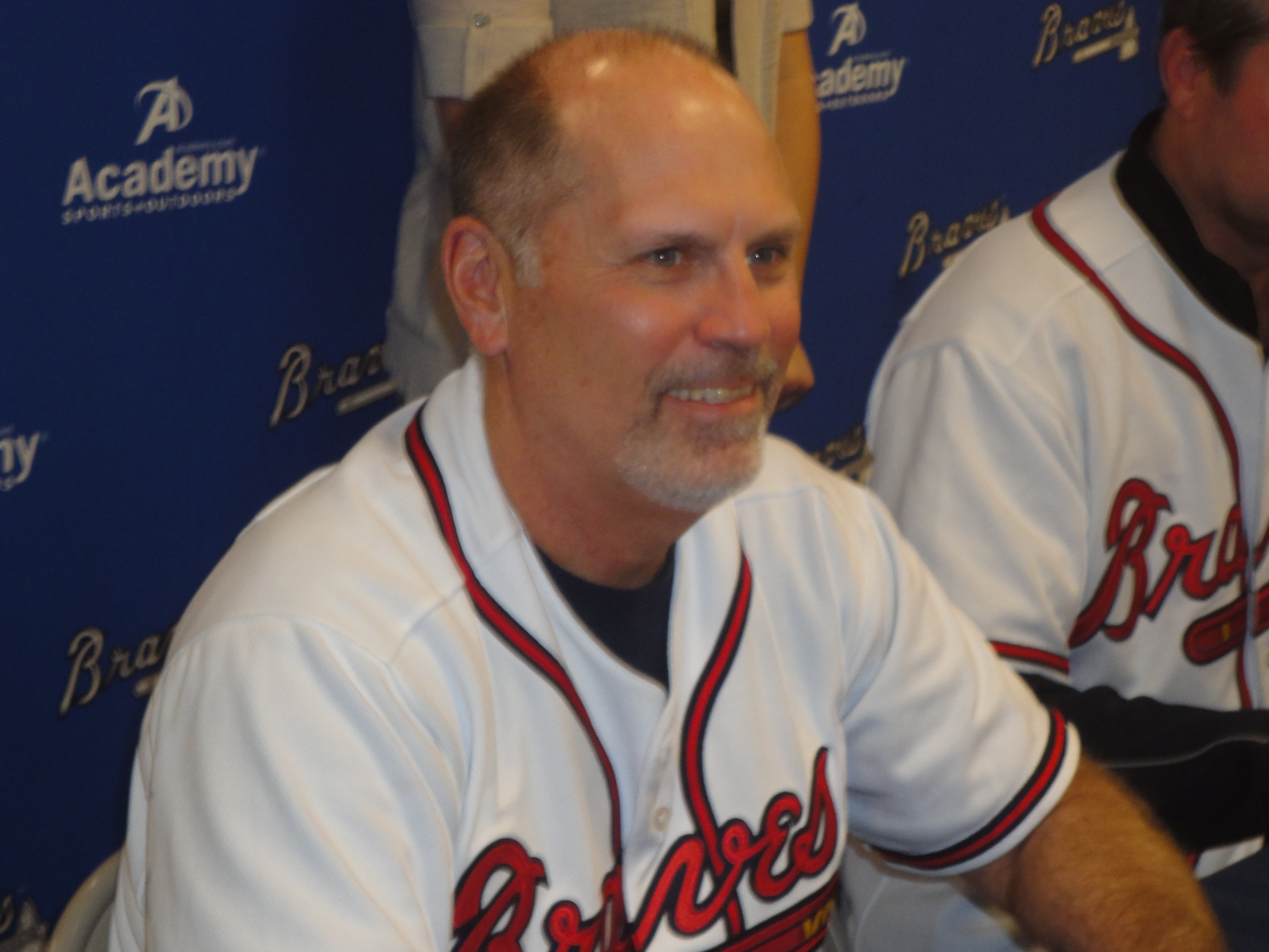 Braves third base coach Brian Snitker at a 2012 Atlanta Braves Country Caravan autograph signing.